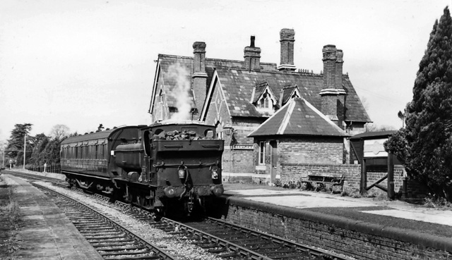 Upton-on-Severn Station, with train. Five months before the service ended, a train for Tewkesbury and Ashchurch is waiting to leave, headed by ex-GW 0-6-0T No. 7756.